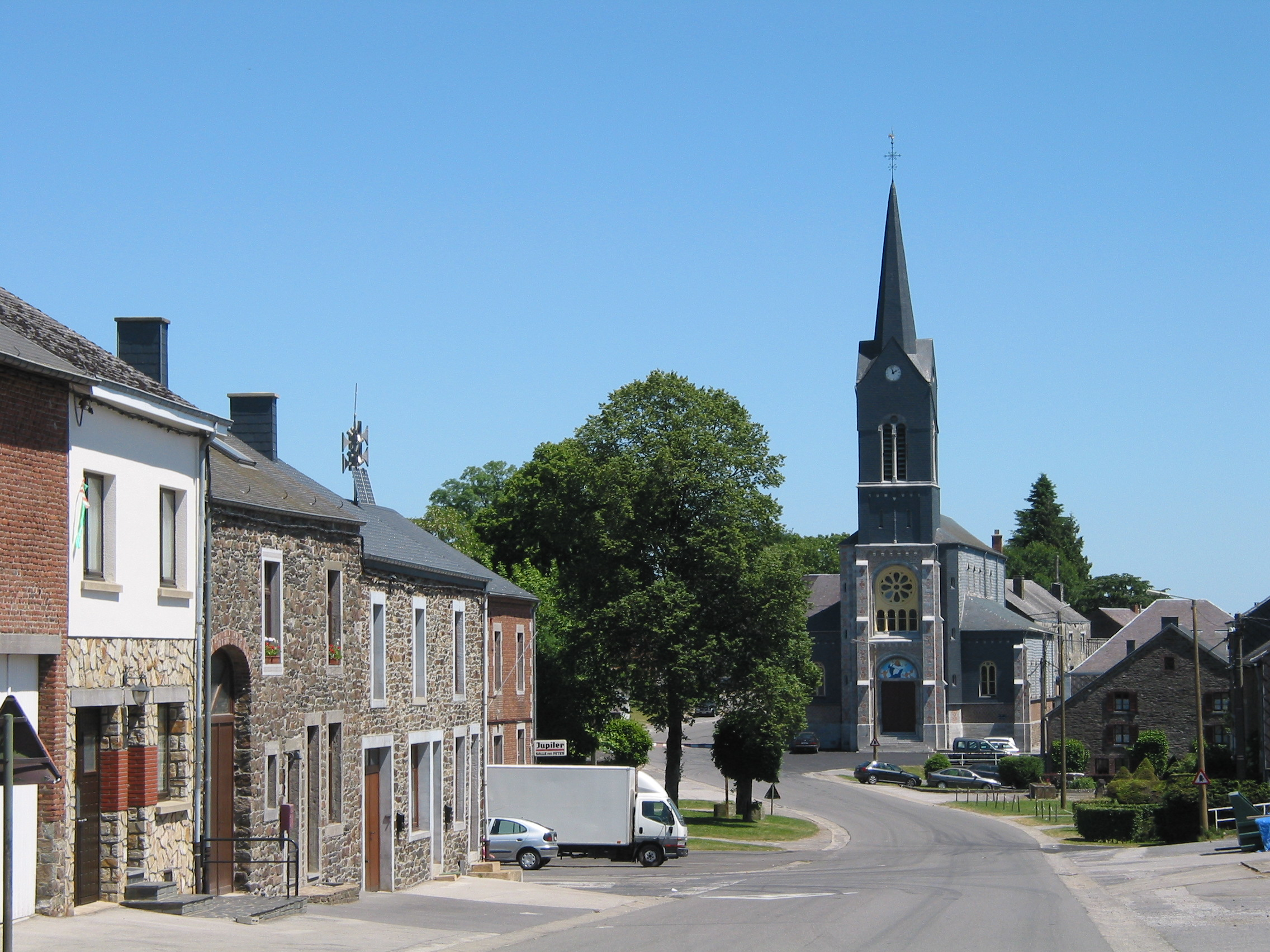 Rienne (Belgium), the Our Lady of the Assumption church (1872-1874).